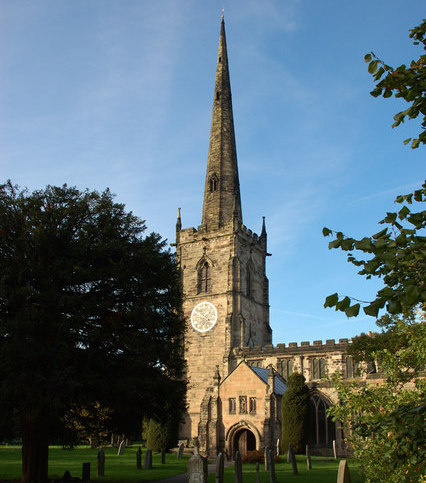 Cropped version of File:Repton Church.jpg